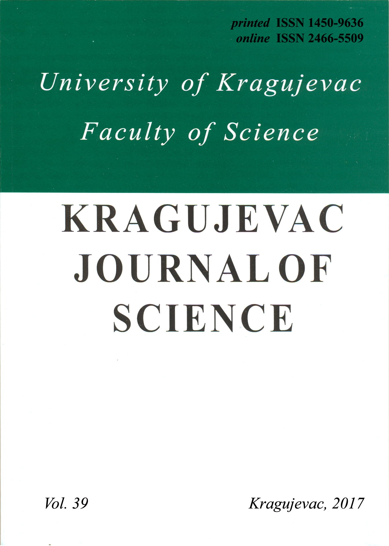 Cover Kragujevac Journal of Science, Faculty of Science, University of Kragujevac, Serbia